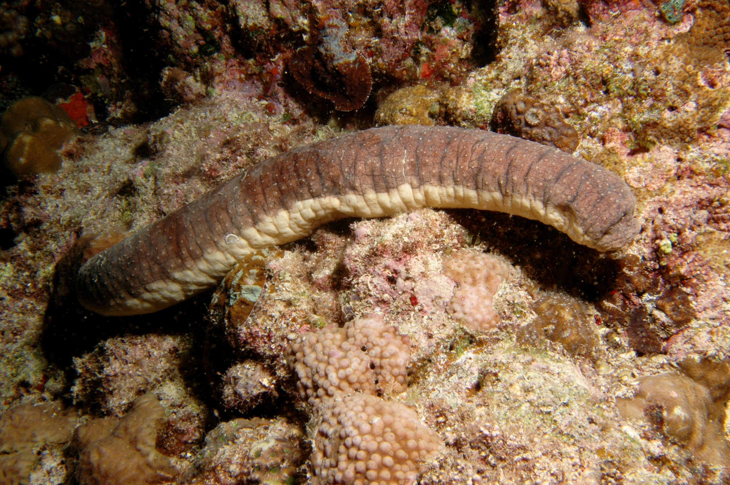 Holothuria edulis (gray form). Cape Maeda, Okinawa. Japan.